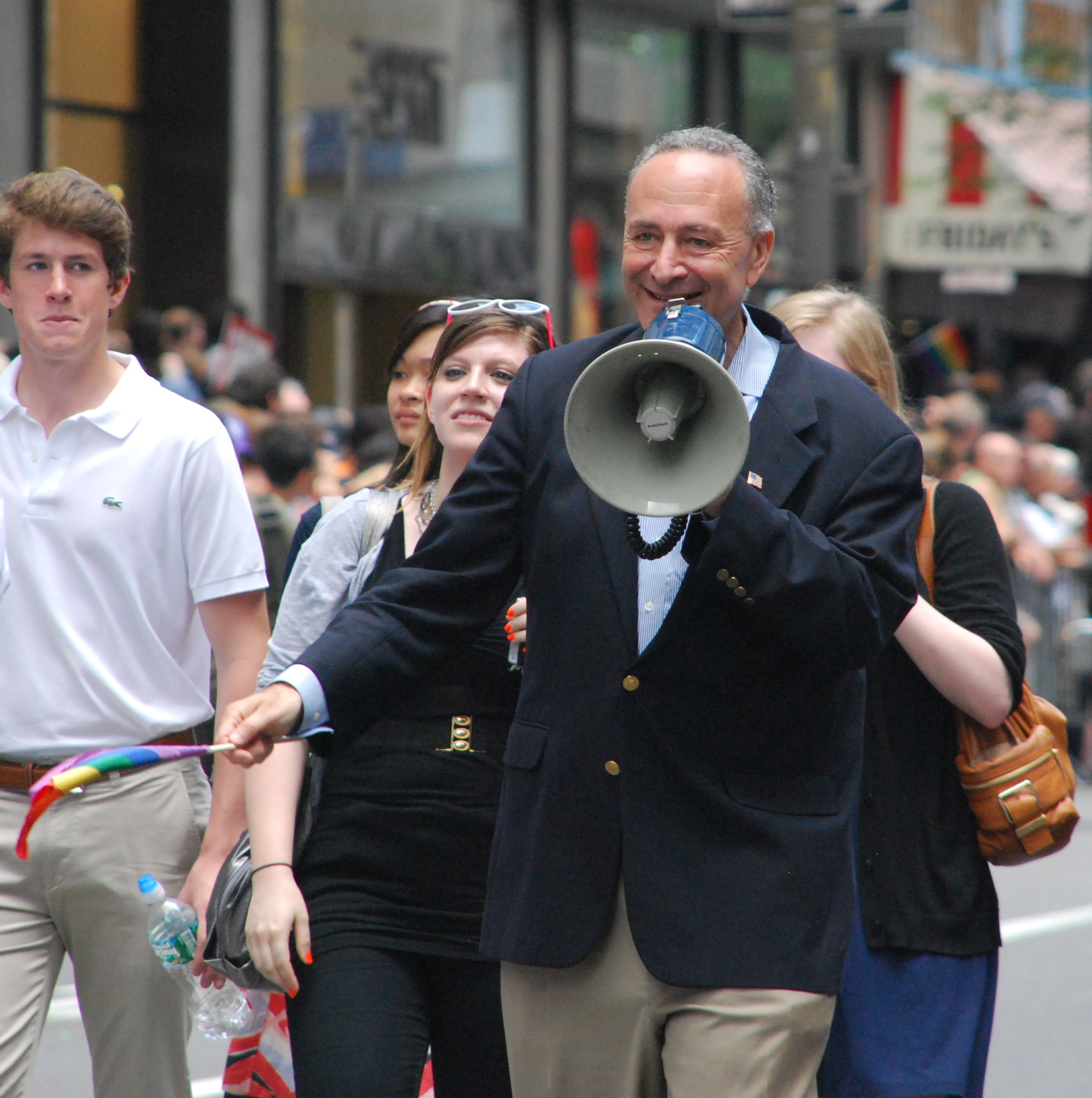 Chuck Schumer at the LGBT Pride parade, New York City, 2009.